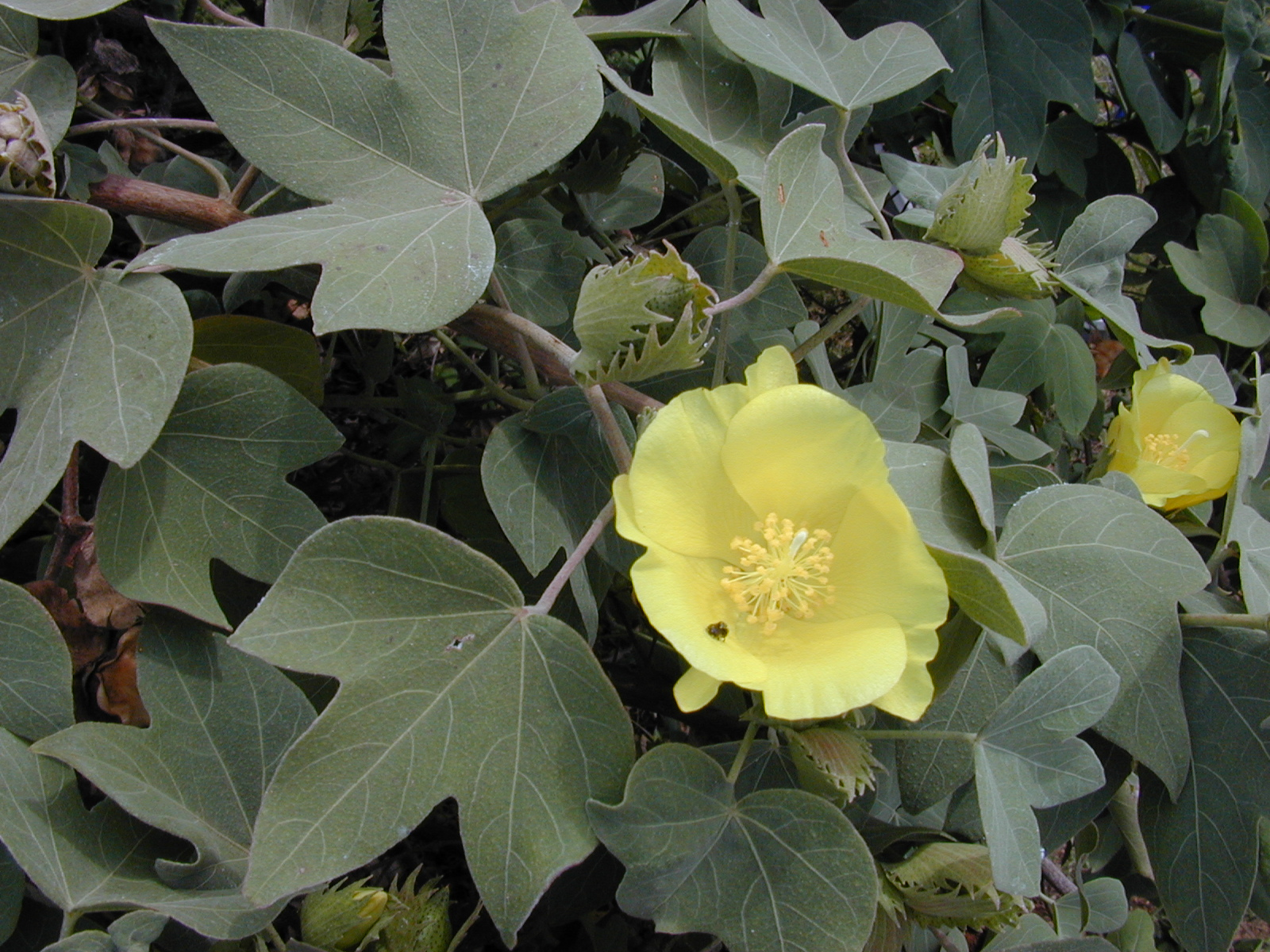 Gossypium tomentosum (flowers and leaves). Location: Maui, Kalepolepo Kihei